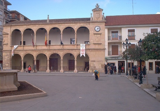 Fachada principal del Ayuntamiento de Villarrobledo, de estilo Renacentista. Edificado en 1599.